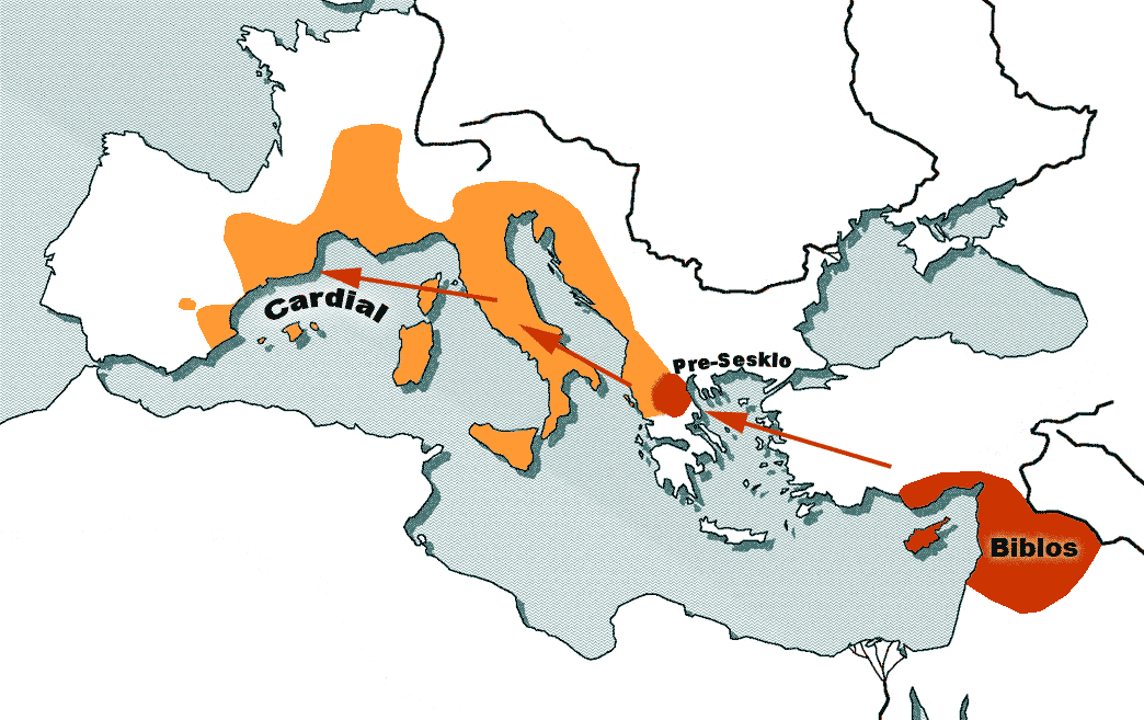 Map of Cardium Pottery (Lower Neolithic, 6th and 5th milenium BC)